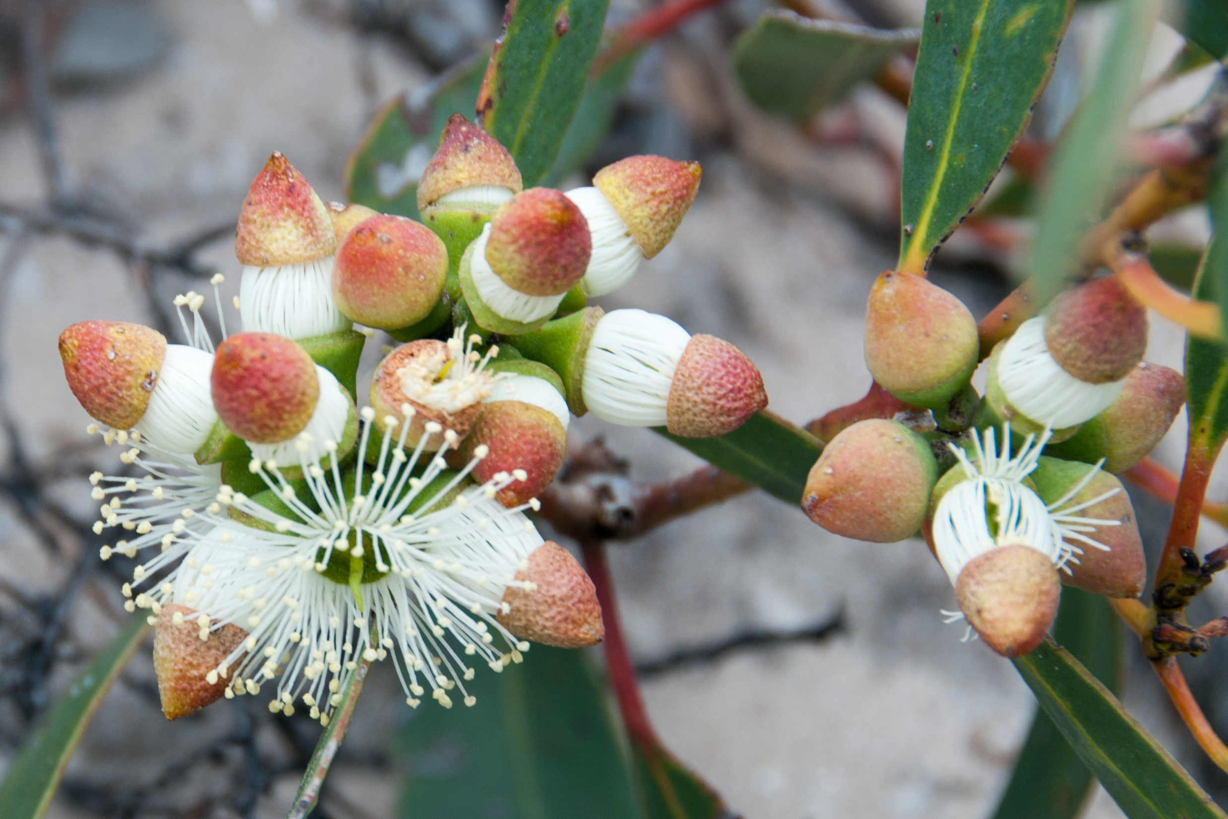 Cup gum — Eucalyptus cosmophylla. On Kangaroo Island.